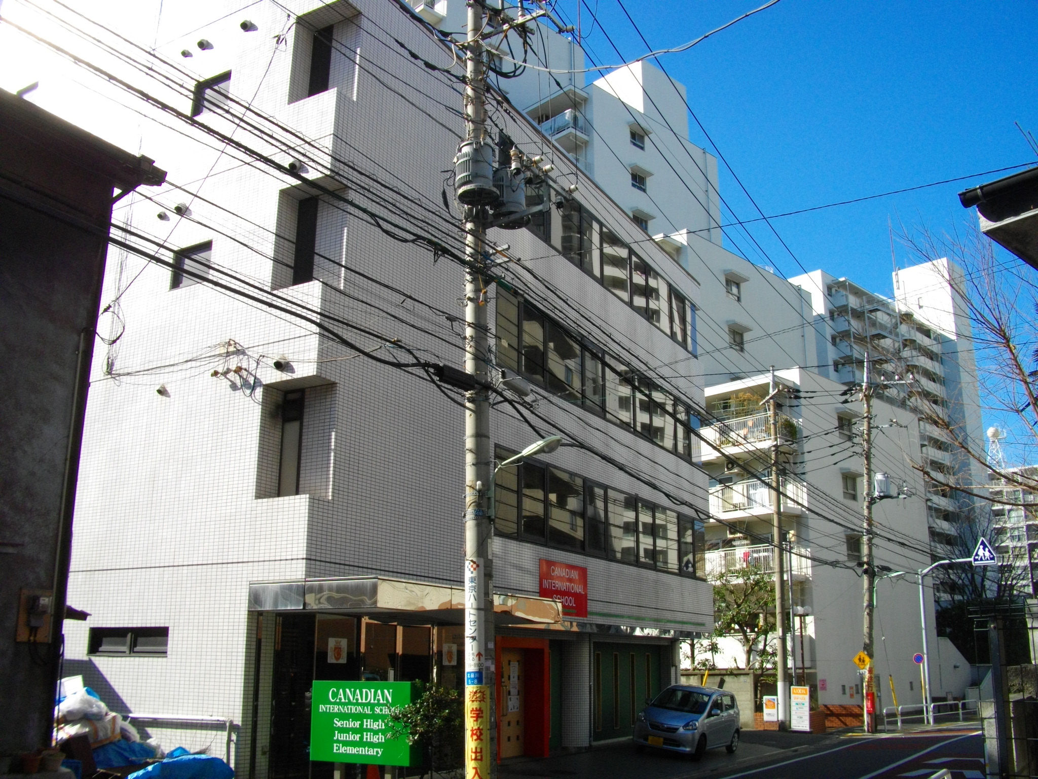 Canadian International School Building A